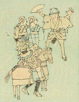 Japanese exhibitions, Honihoro by Konseki Okamoto kokon hyakufu azuma nagori.Painted by Eitaku Kobayashi.